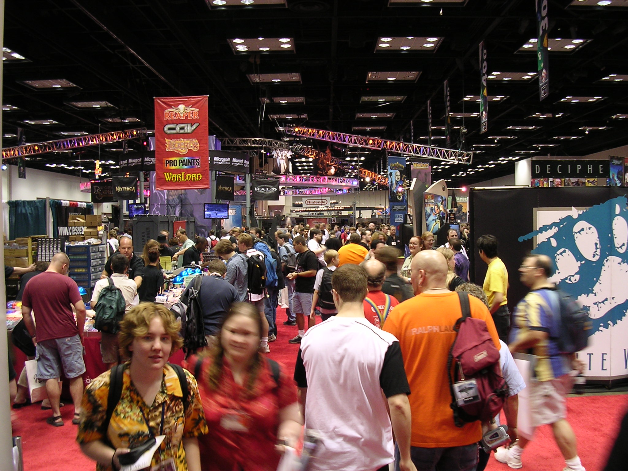 Photograph of the exhibit hall at Gen Con Indy on en:2003-07-24. It is unmodified from the digital camera. I, User:Alan De Smet, took this photograph and holder the copyright on the image. I license it under the Creative Commons Attribution ShareAlike 2.5 and 3.0 licenses. Credit should be to "Alan De Smet".